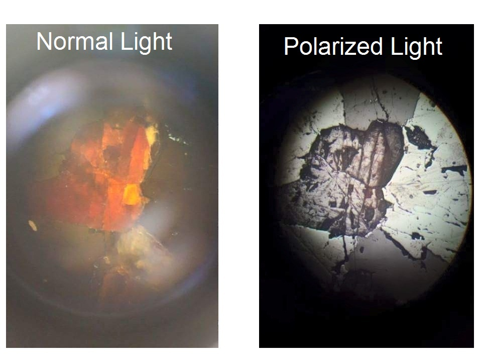 Frankelinite Zincate red (Normal and Polarized light)